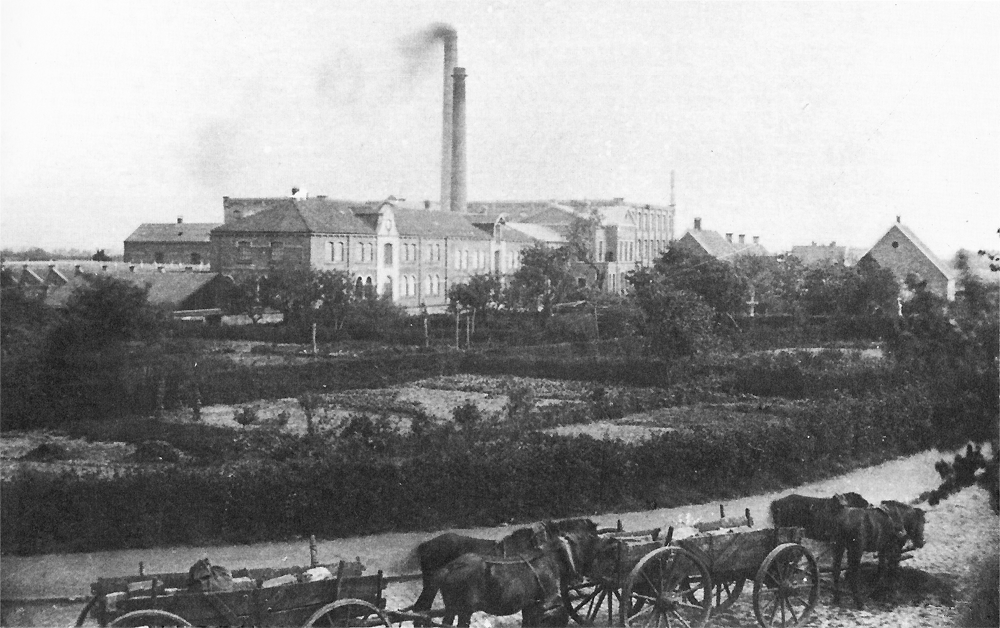 Die Textilfabrik Schlikker und Söhne mit katholischem Friedhof mit Blick von Ohner Straße, ca. 1890